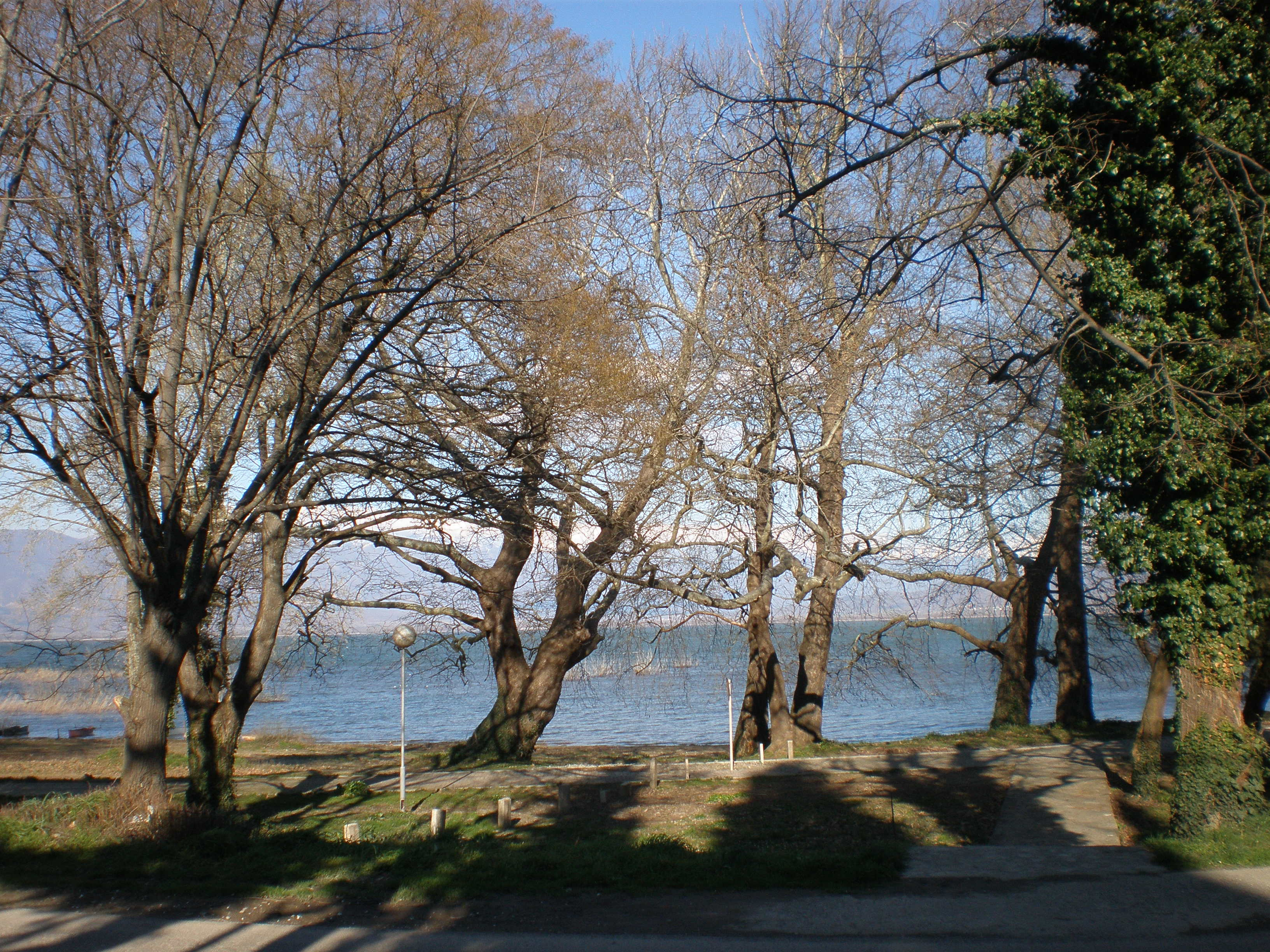 The maple trees and the Dojran Lake in the park in town of Old Dojran, Macedonia